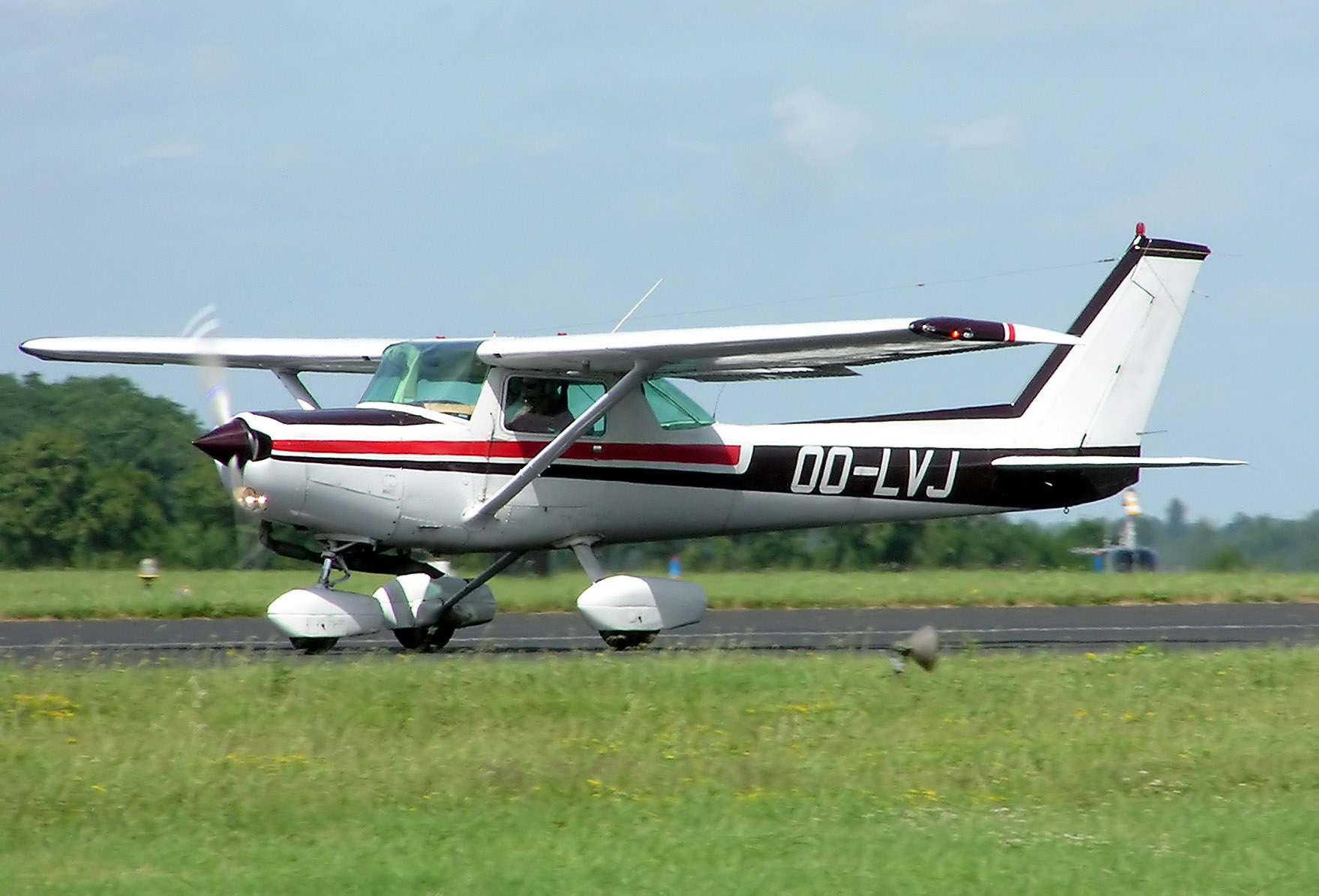 Cessna FA152 Aerobat (Belgian registration OO-LVJ) at Kemble Airfield, Gloucestershire, England. 1981-built by Reims Aviation, France. Photographed by Adrian Pingstone in July 2005 and released to the public domain.